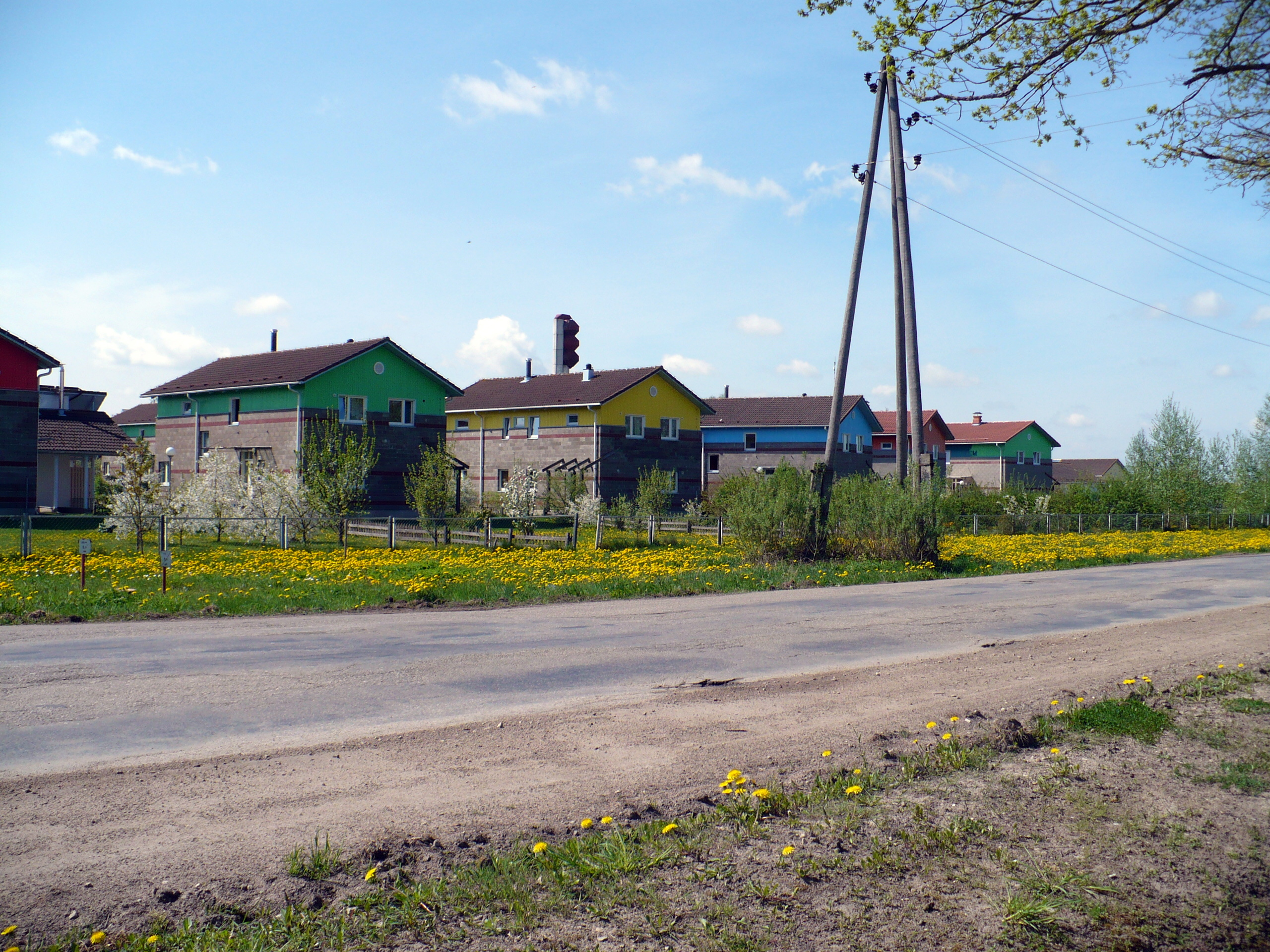 SOS childrens centre. May 2008